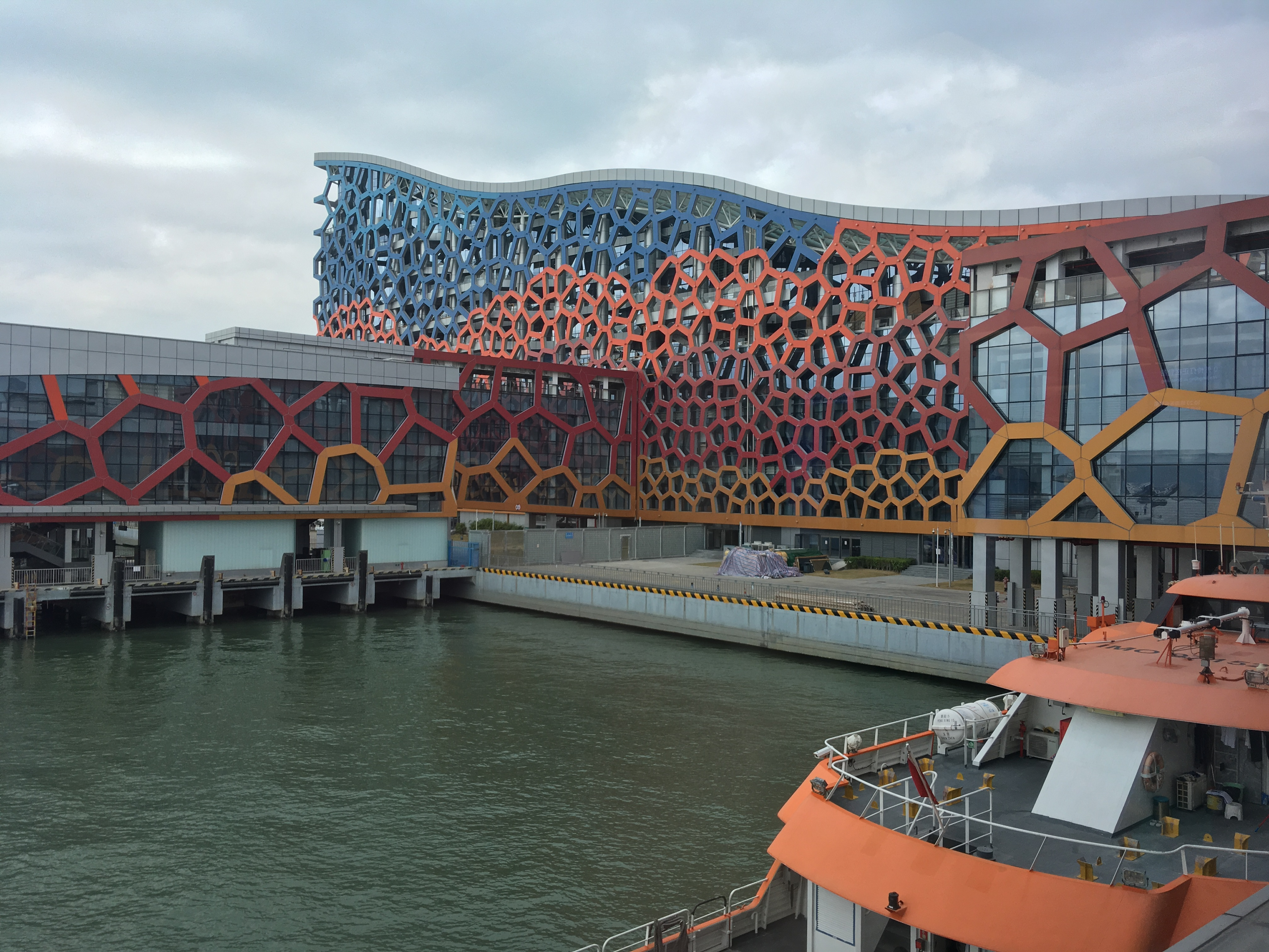 Shekou Cruise Center seen from waiting room.